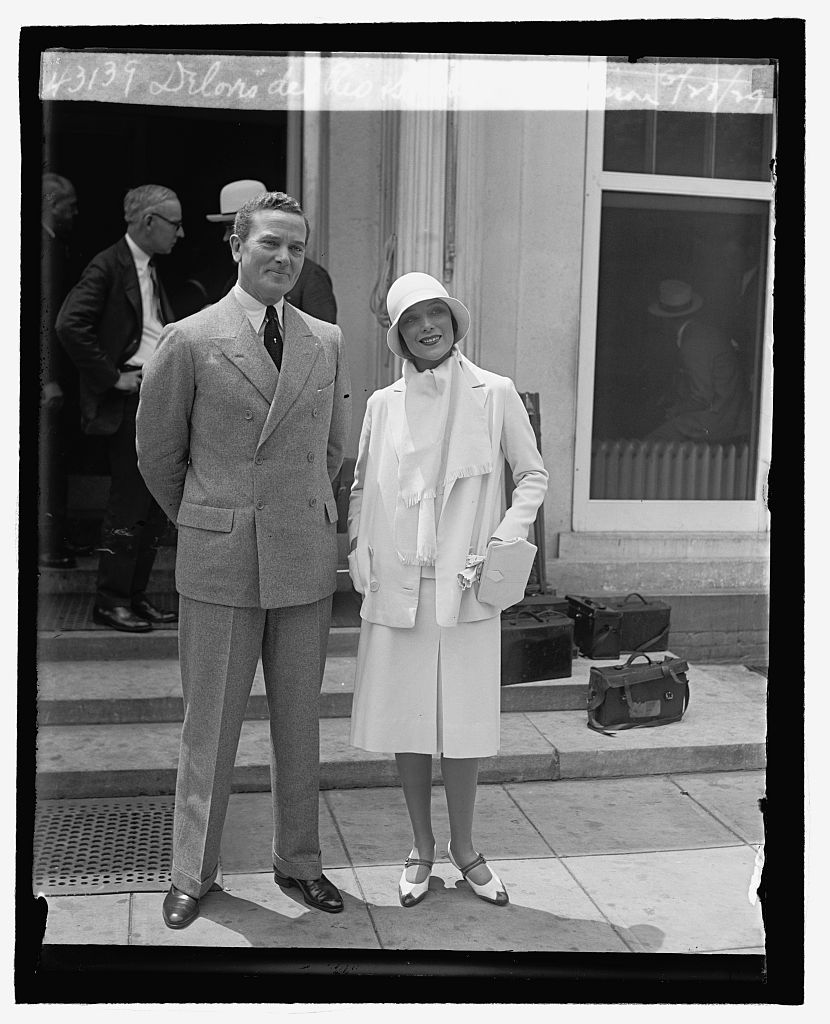 American actors Delores Del Rio and Herbert Rawlinson